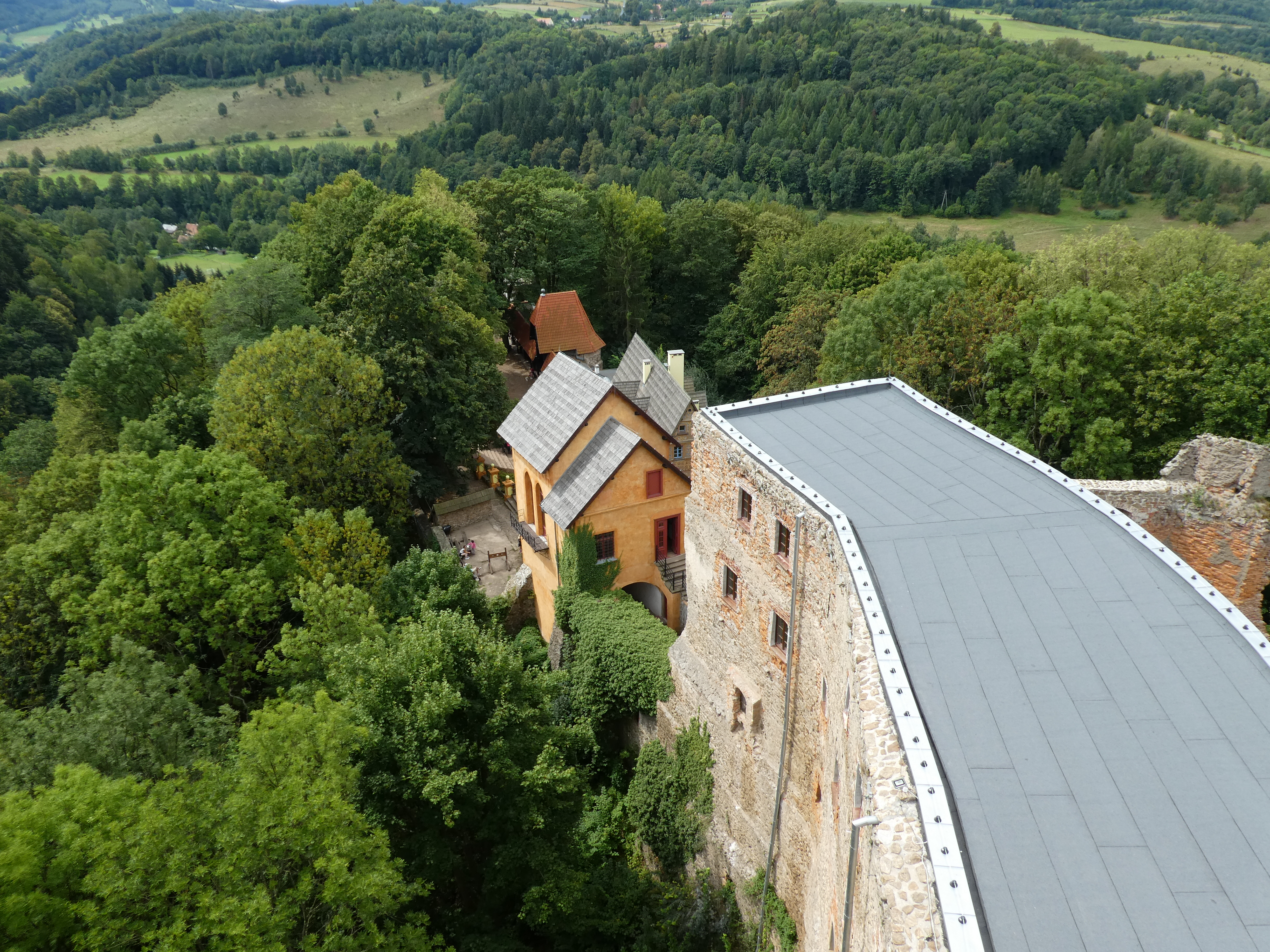 Castle Grodno, view from tower.